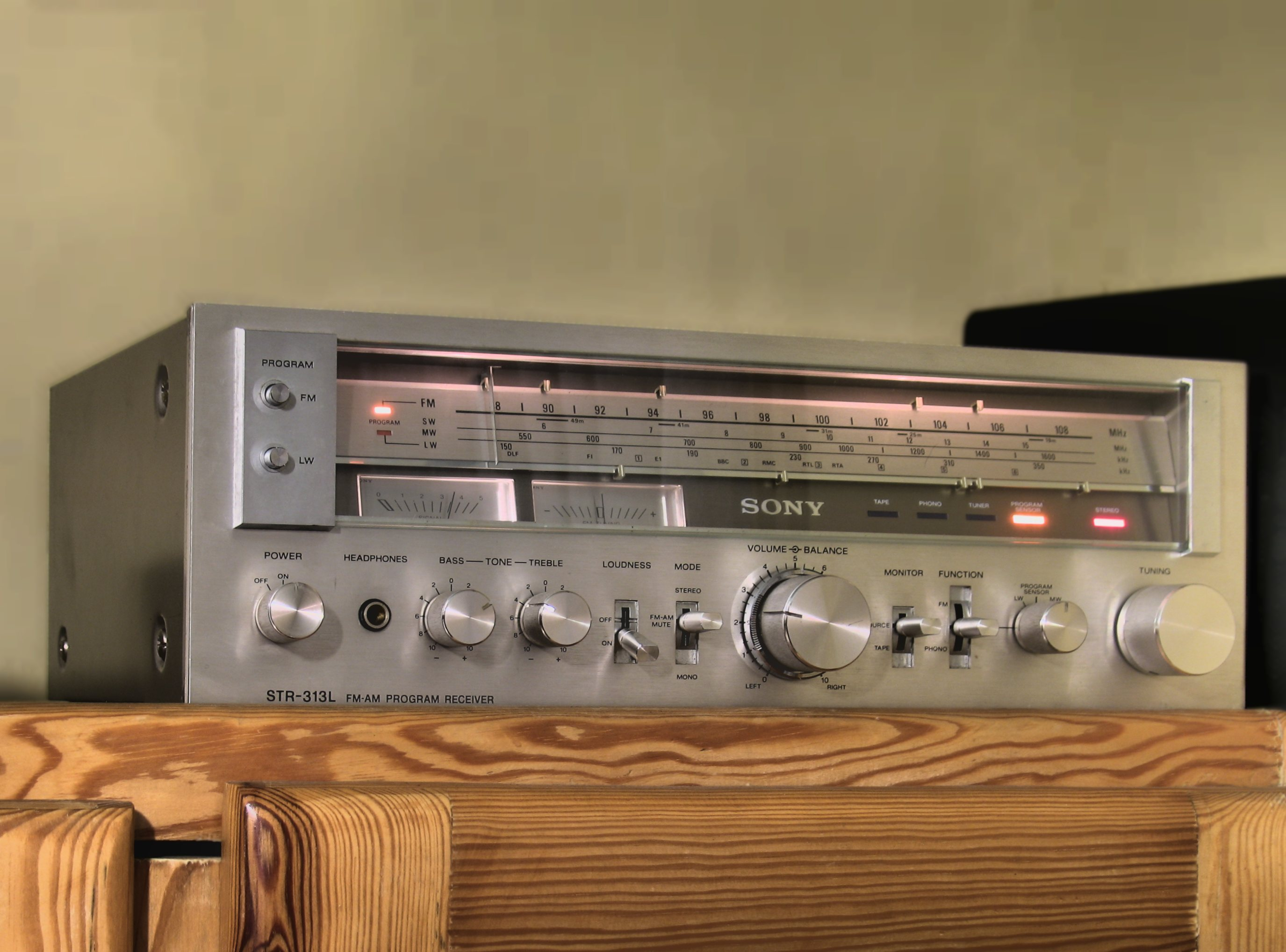 Sony stereo receiver